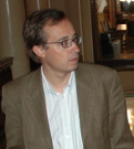 Picture of Juan Lemmens, a Belgian rightist activist